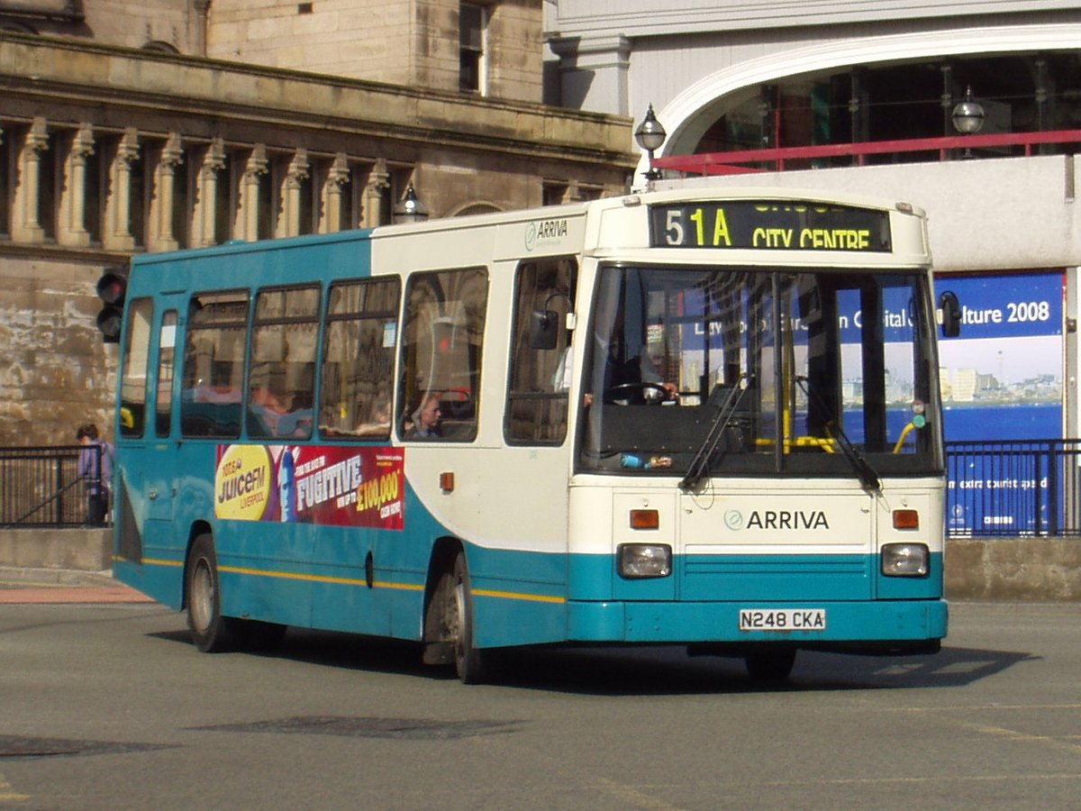 Dennis Dart with East Lancs EL2000 bodywork in Lime Street, Liverpool.